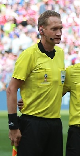 Igor Akinfeev, Björn Kuipers, Sergio Ramos